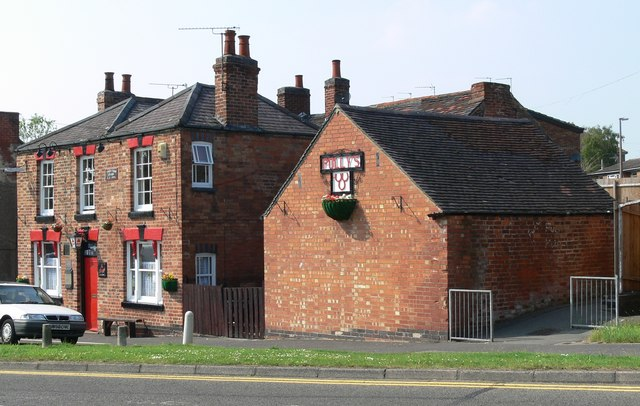 The Three Horseshoes, Whitwick This Grade II listed public house is more commonly known as 'Polly's'